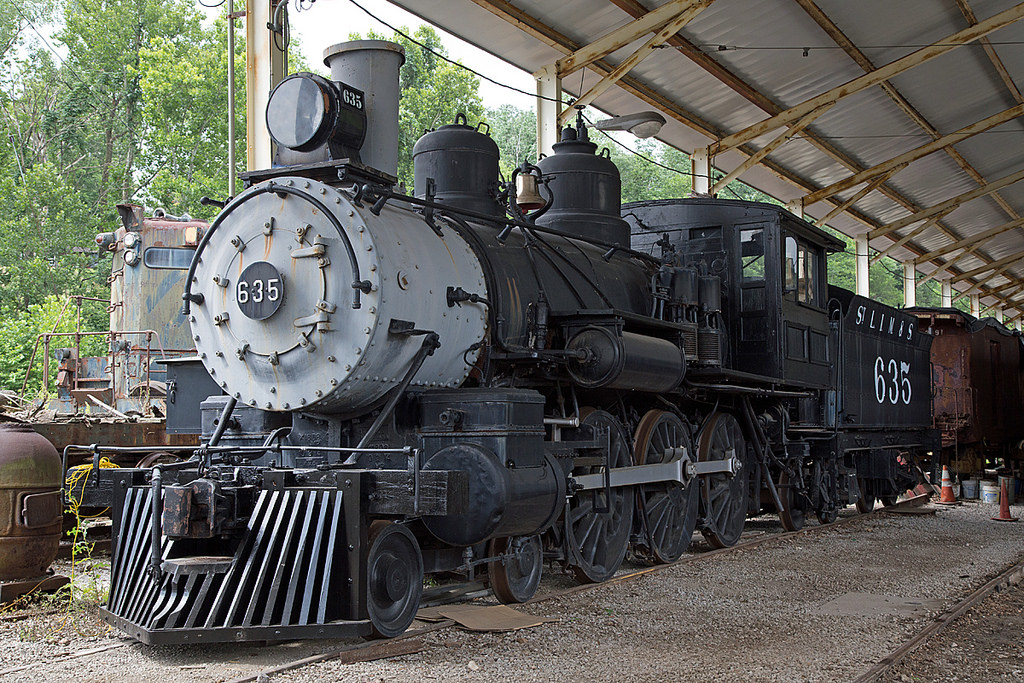 St. Louis, Iron Mountain and Southern Railway Locomotive #635. This Baldwin 4-6-0 locomotive is in the collection of the Missouri Transportation Museum in Ballwin, Missouri